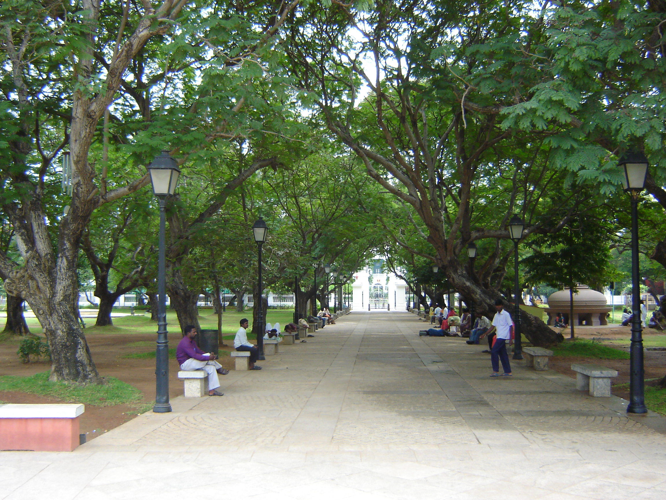 Bharati Park (Government Park) in Puducherry, India